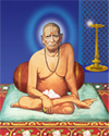 Shree Swami Samarth Maharaj Dindori Pranit